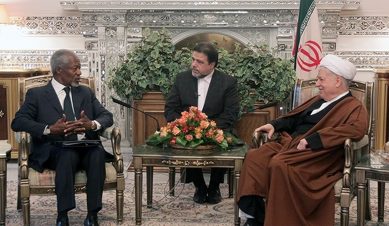 Kofi Annan, former General-Secretary of the United Nations meets with Former Iranian President Akbar Hashemi Rafsanjani in his office in Tehran